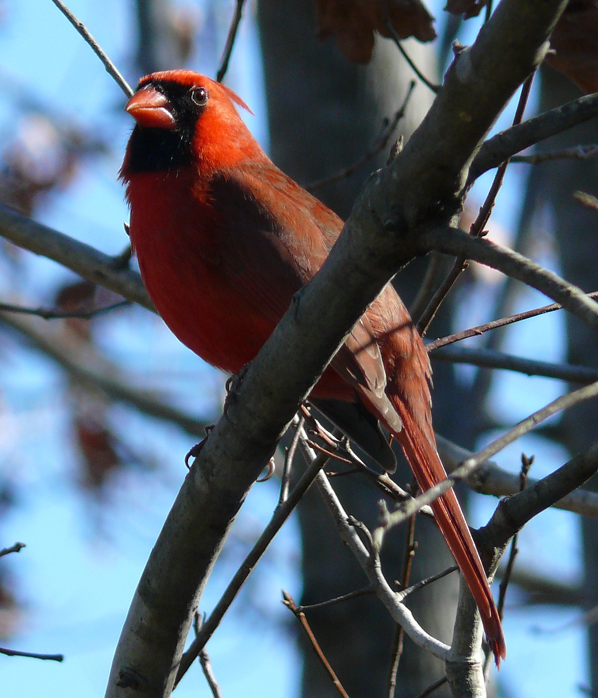 A male Northern Cardinal (Cardinalis cardinalis) perched on a tree branch. Photo taken with a Panasonic Lumix DMC-FZ50 in Johnston County, North Carolina, USA.